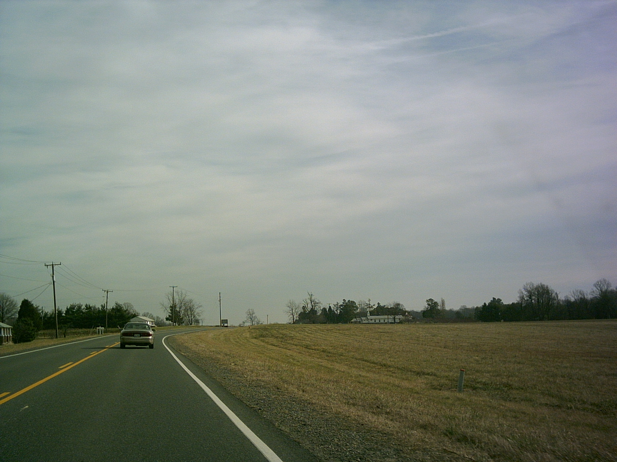 Image taken by me for Wikipedia